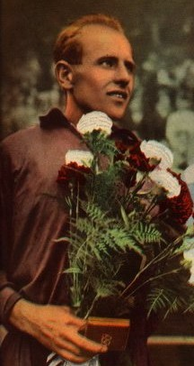 Emil Zatopek